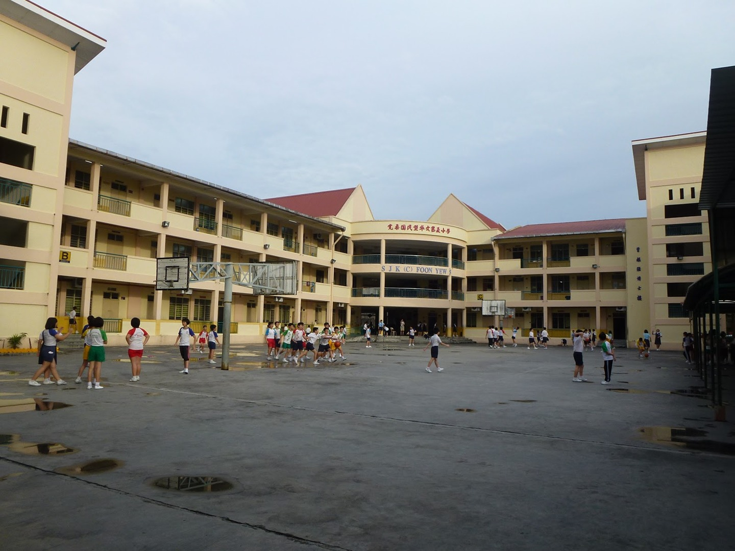 S.J.K.C Foon Yew 5